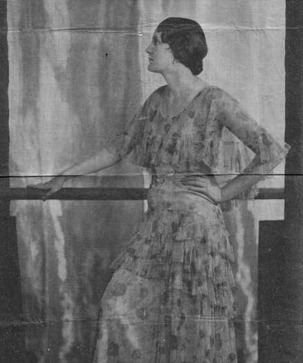 The American/Australian stage actress Coral Browne, pictured for the front cover of Table Talk newspaper in 1931.